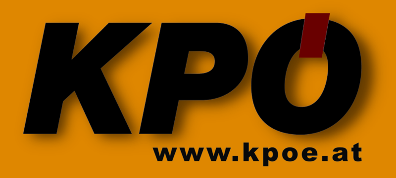 Logo of the Communist Party of Austria